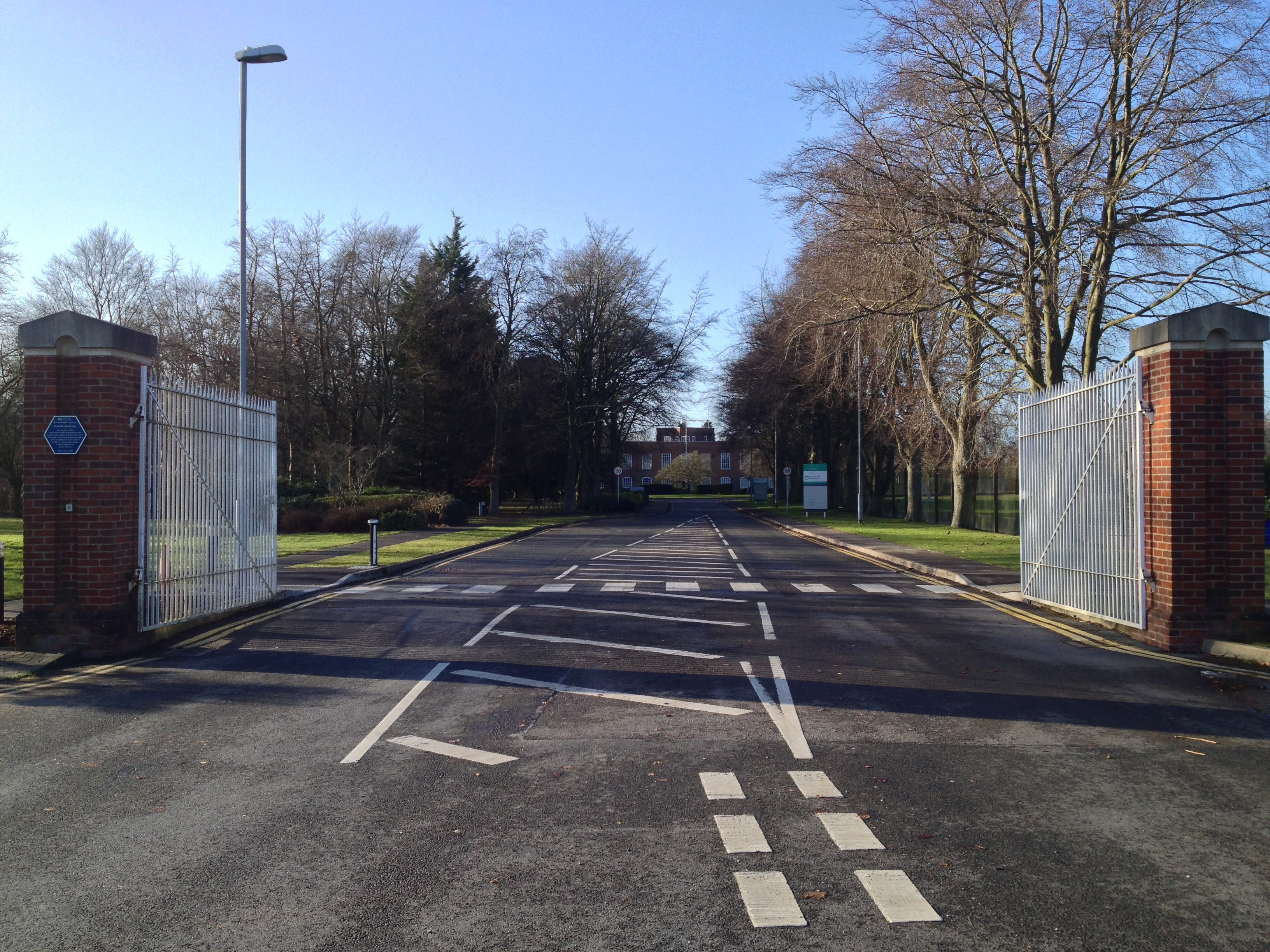 The main gate into Atomic_Energy_Research_Establishment Harwell as of January 2015